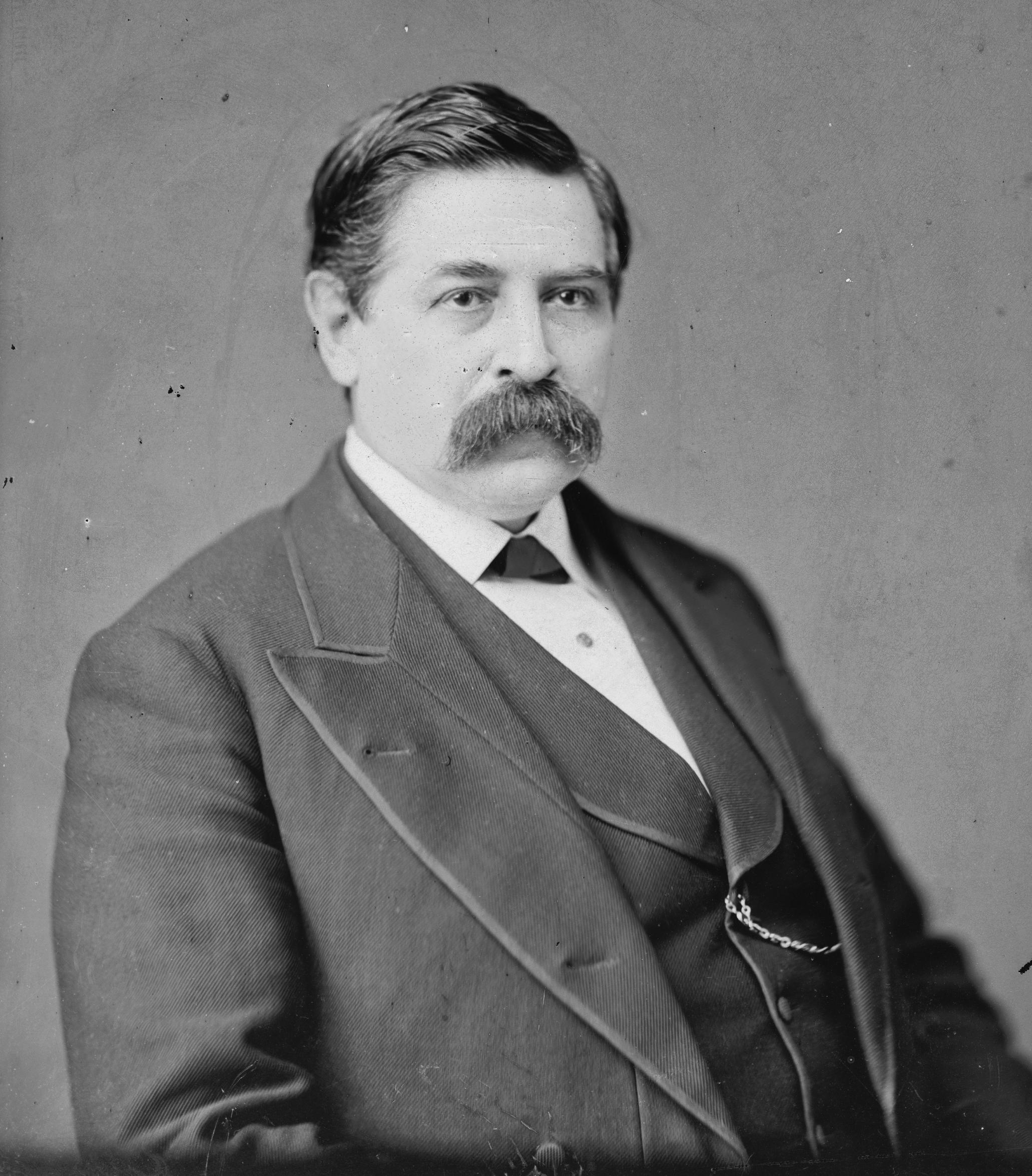 Bainbridge Wadleigh. Library of Congress description: "Wadleigh, Hon. Bainbridge, Senator of N.H.".